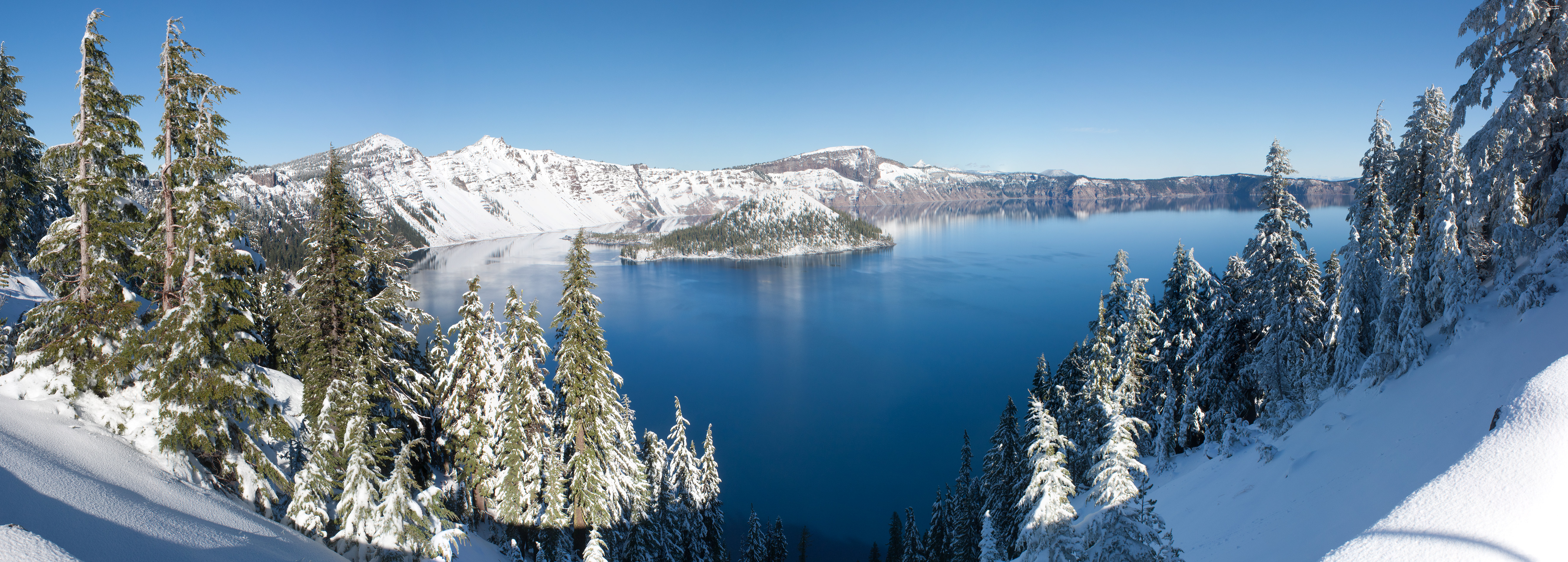 Panoramic winter view of Crater lake from Rim Village.